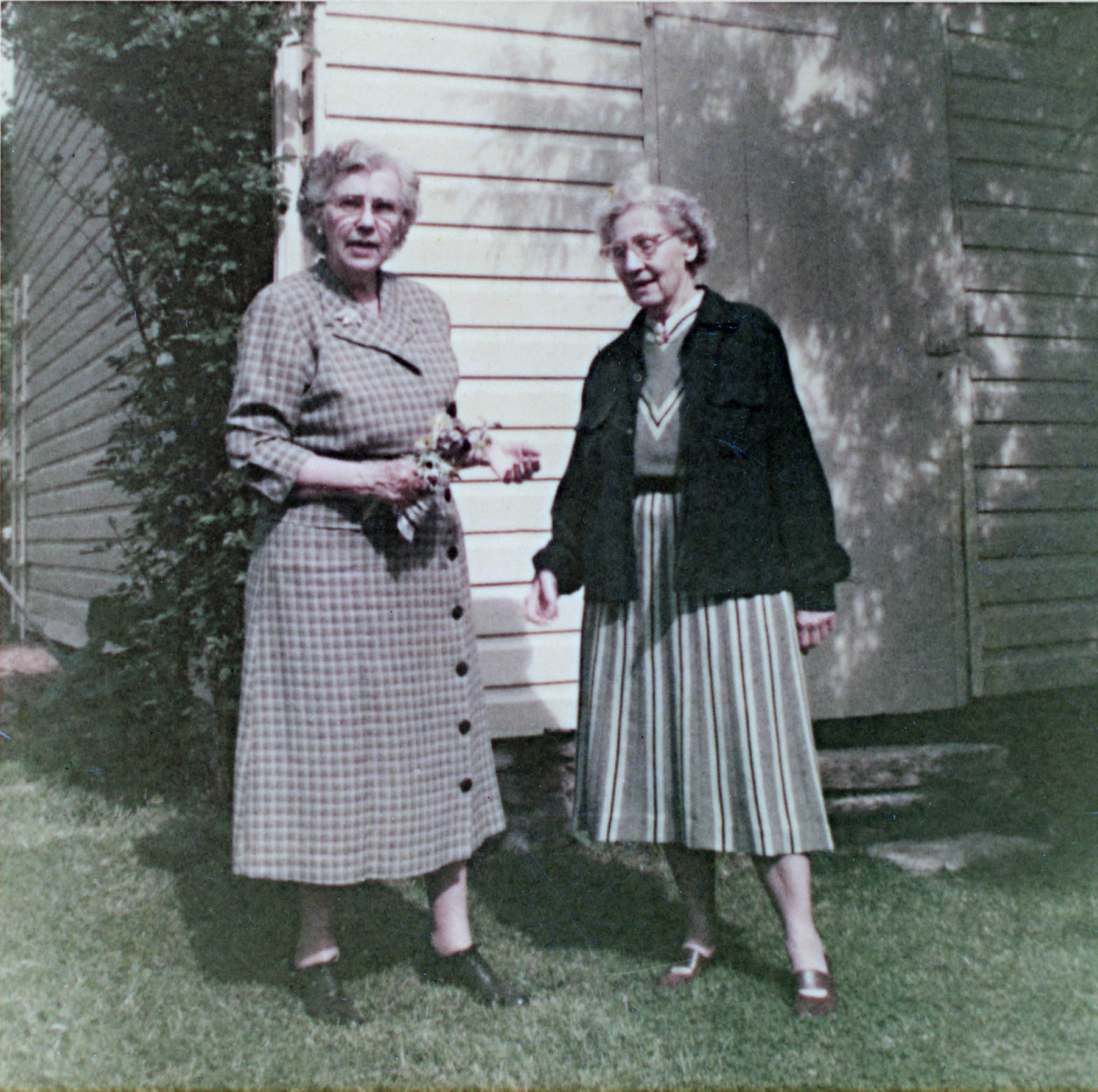 Jessie Taft and Virginia Robinson in May, 1954, pictured at "The Pocket", their home on East Mill Road in Flourtown PA.